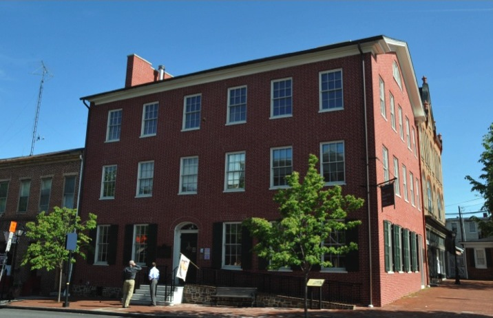 HERE LINCOLN STAYED ON THE EVENING OF NOVEMBER 18TH. WILLS WAS A LAWYER AND SUPERINTENDENT OF ADAMS COUNTY SCHOOLS